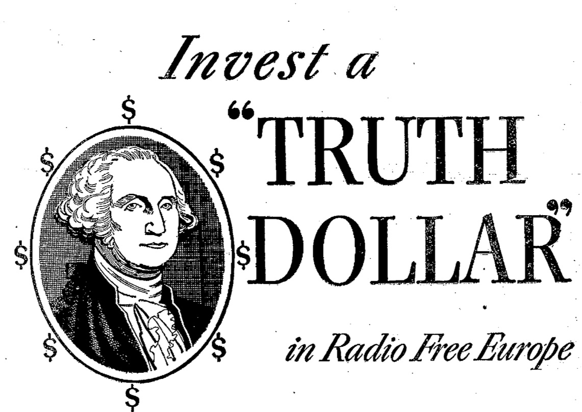 From the Crusade for Freedom, a campaign to create domestic support for America's Radio Free Europe.